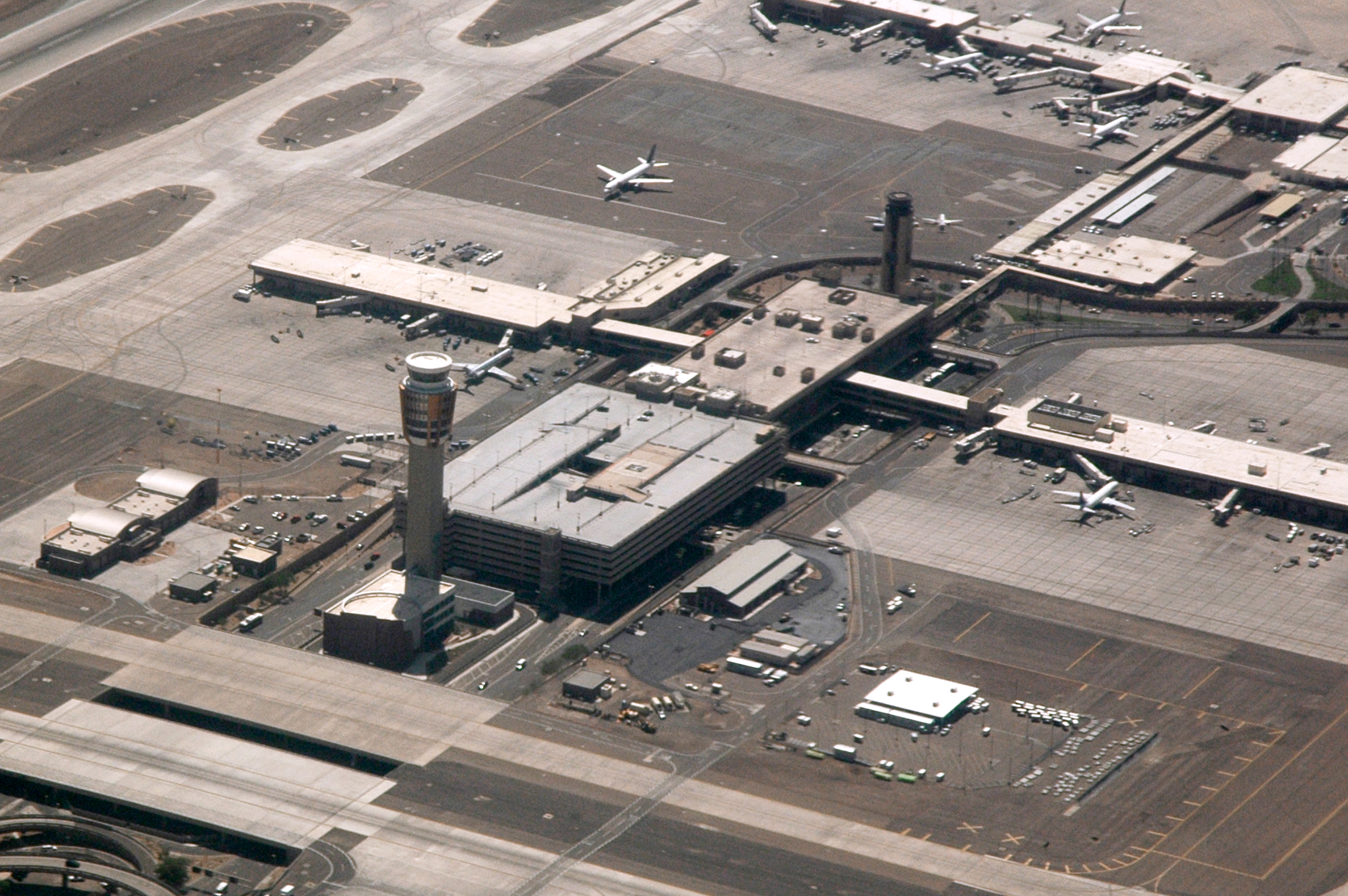 The new control tower of Phoenix Sky Harbor International Airport, looking west. The older tower (furthest west) has since been removed.